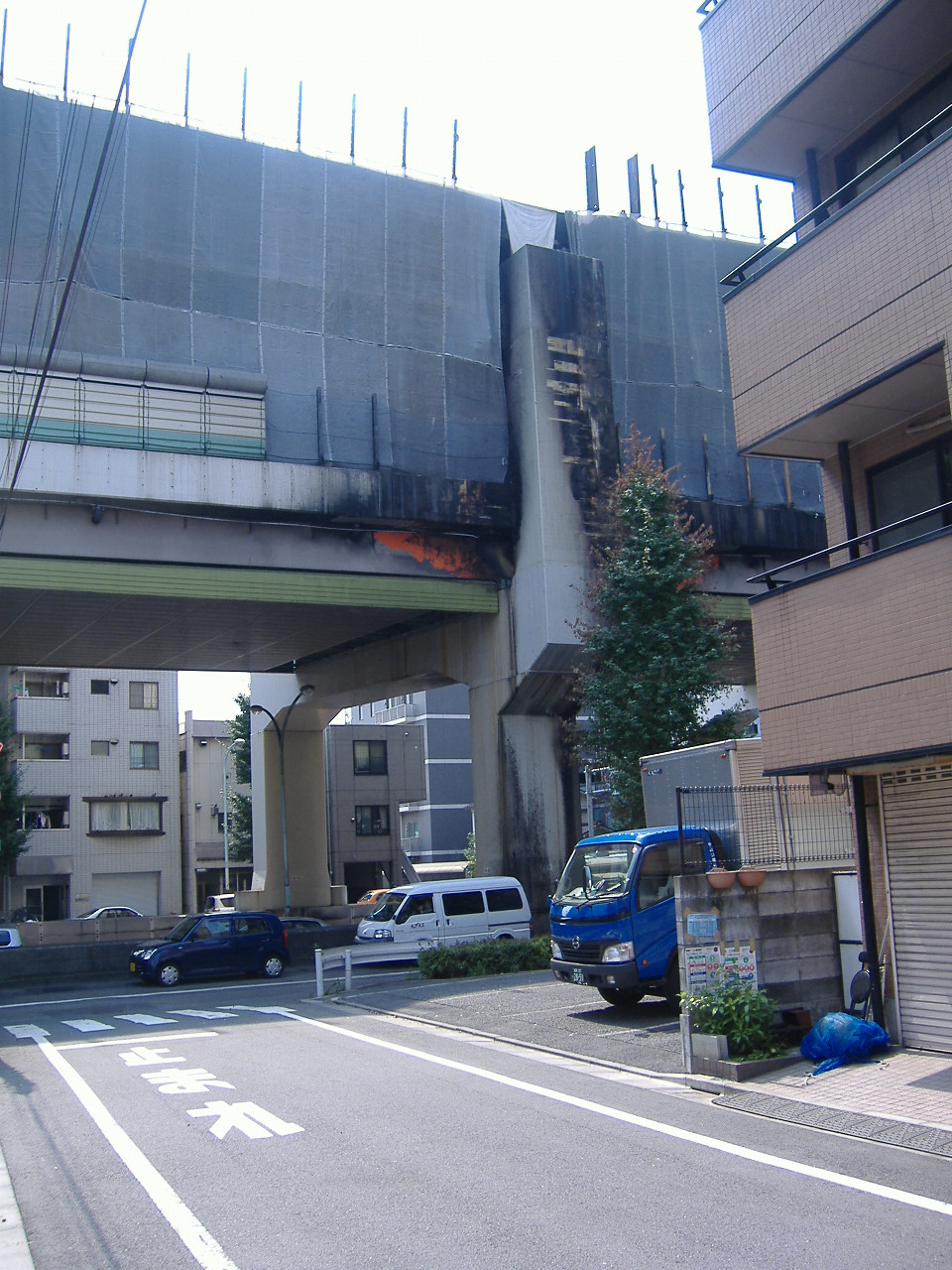 Kumanocho_disasters(Tokyo, Japan)